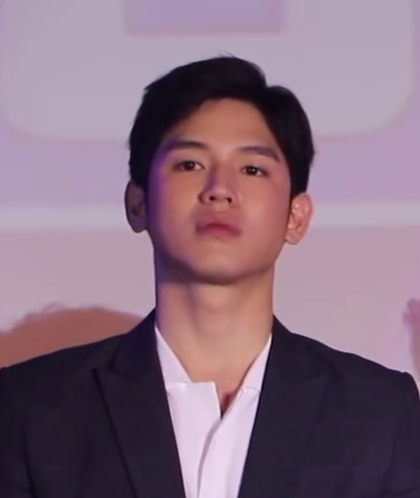 Cast of SOTUS S The Series at attitude awards